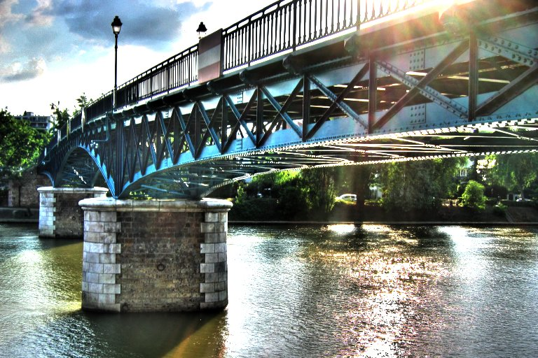 "La passerelle" links Bry-sur-Marne and Le Perreux-sur-Marne. These are located in Paris suburb, in France. This bridge was actually designed by Gustave Eiffel around 1893, the designer and builder of the Eiffel tower in Paris. The bridge is pedestrian only and was restored to its original glory not too long ago. more informations there